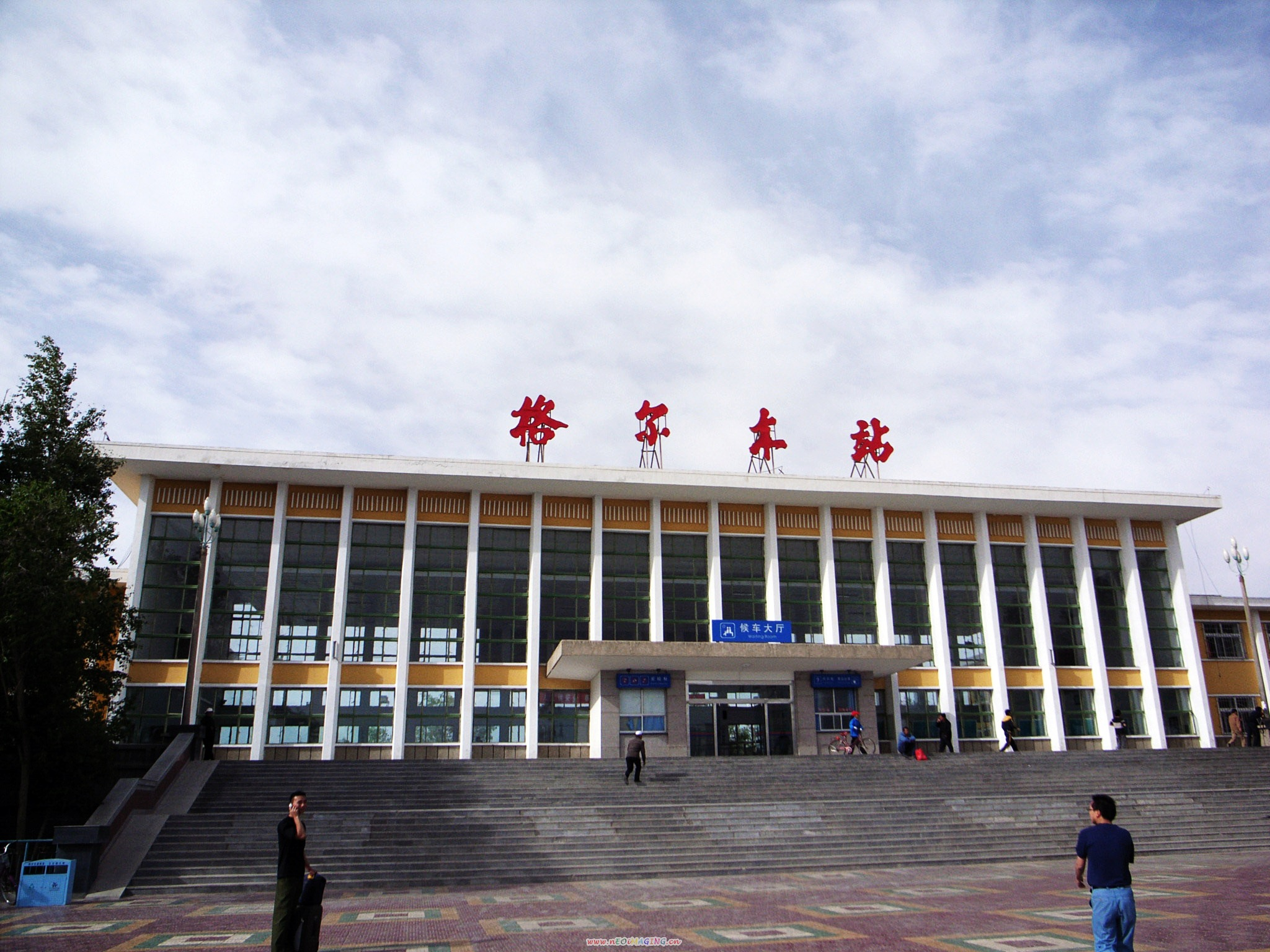 Golmud Railway Station